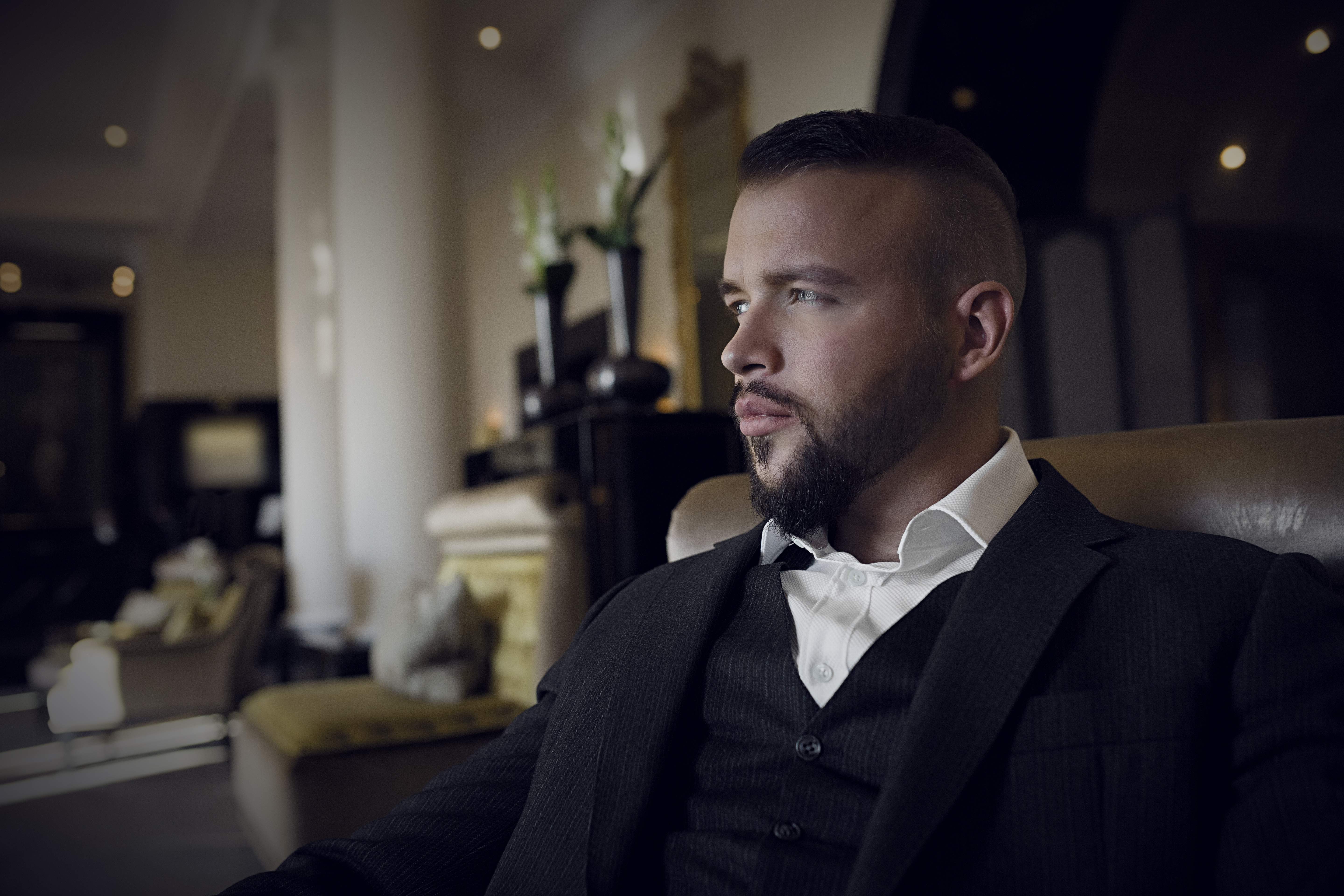 Pressefoto Kollegahs (2015)